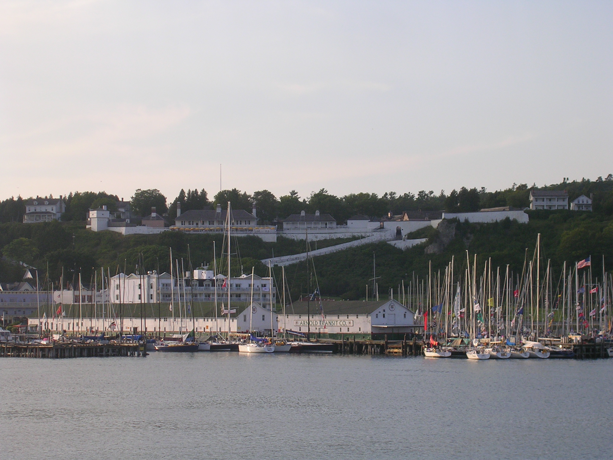 The Fort at Mackinac Island, Michigan, United States, during the weekend of the Chicago to Mackinac sail race.